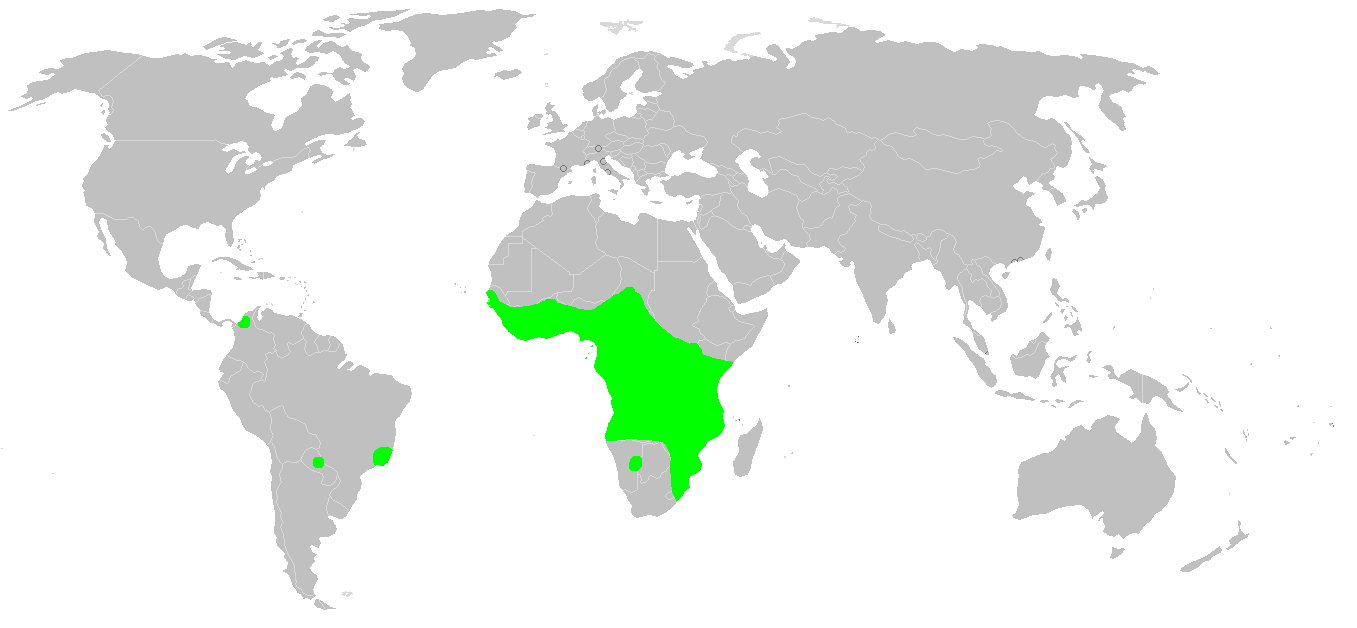 Rough known world distribution of Nephilingis cruentata, after data from Kuntner,M (2007). DOI